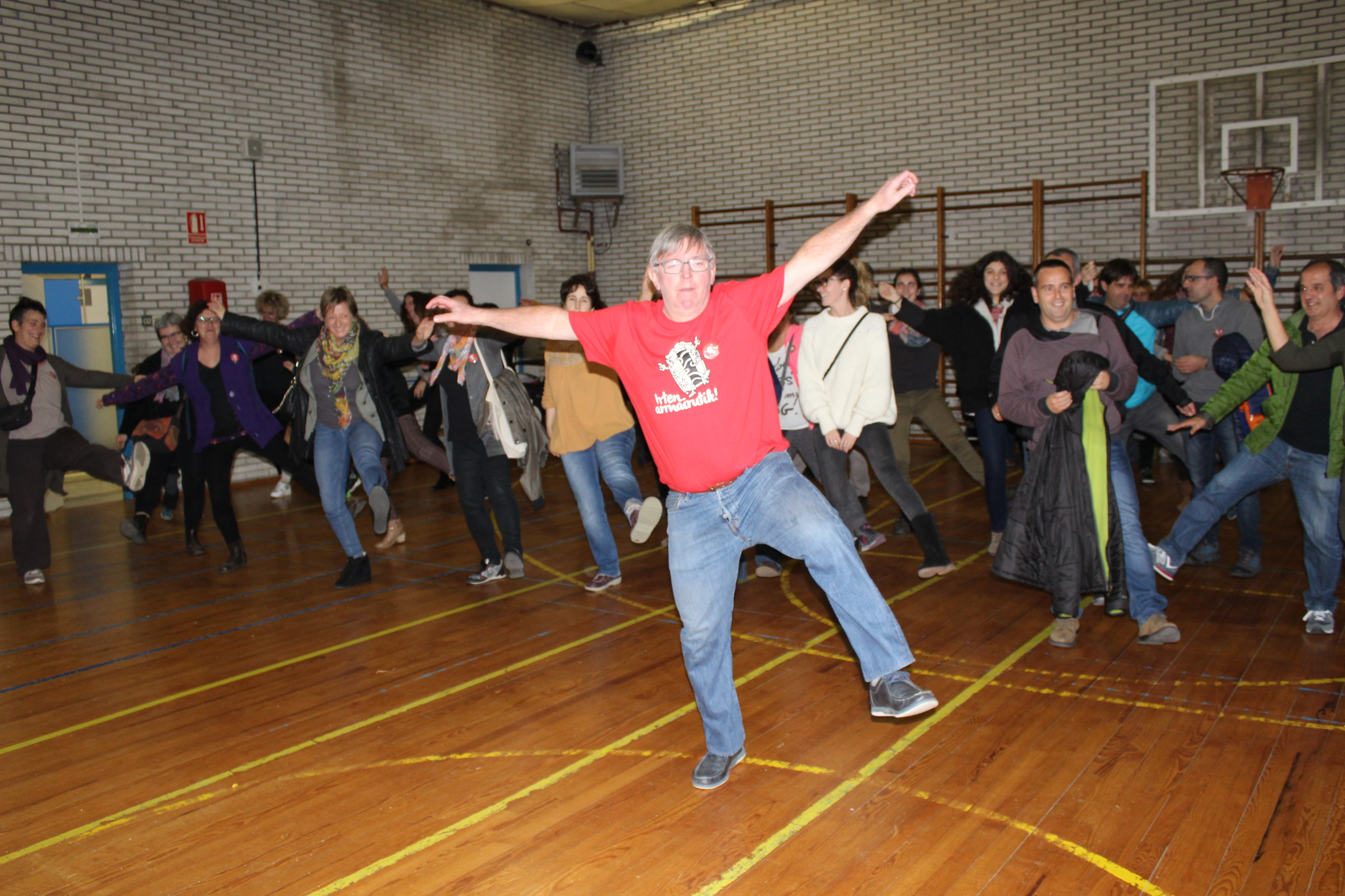 Basque language marathon 2016, Lasarte-Oria, Basque Country